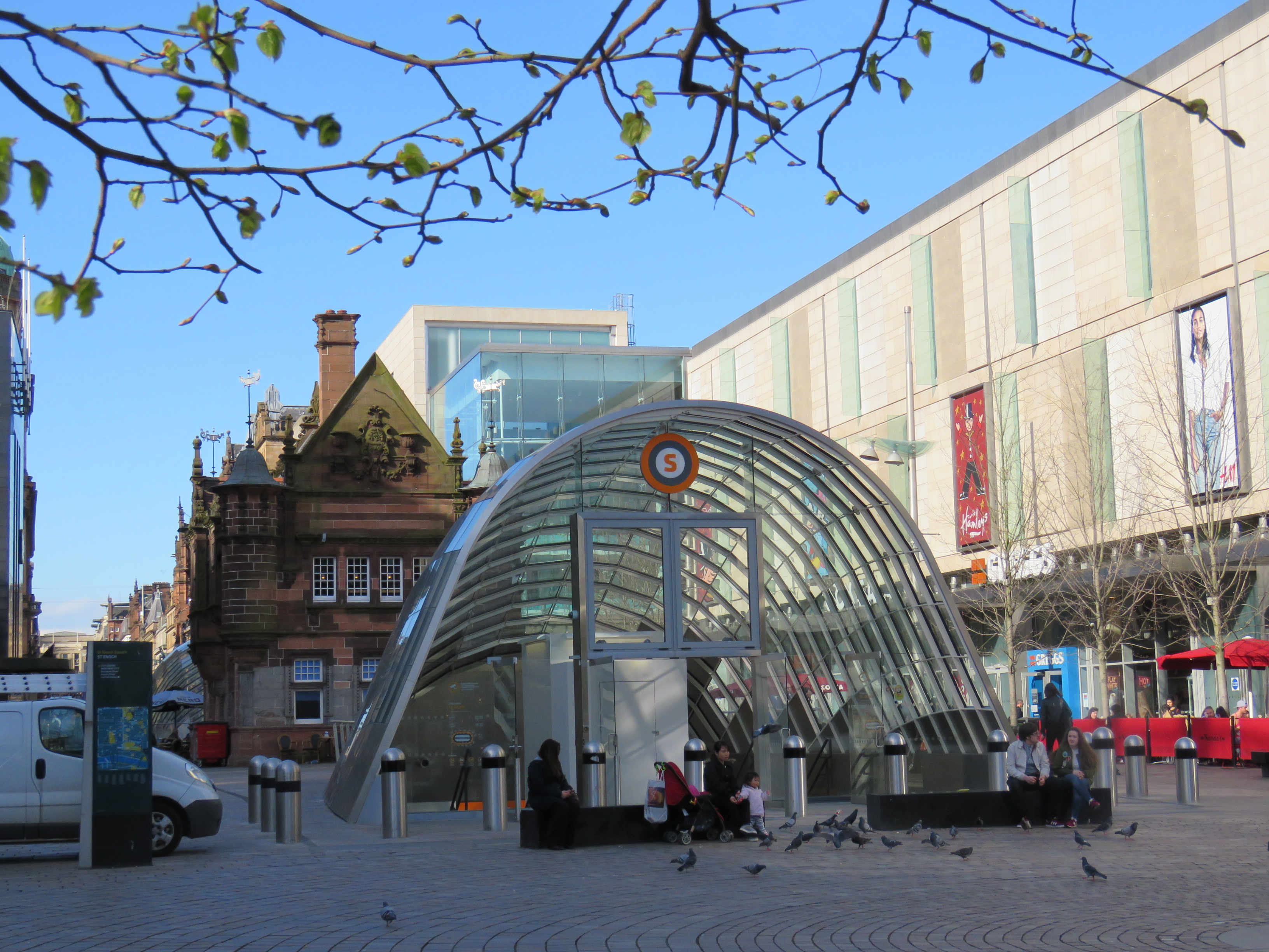 Entrance to St Enoch Underground station, Glasgow